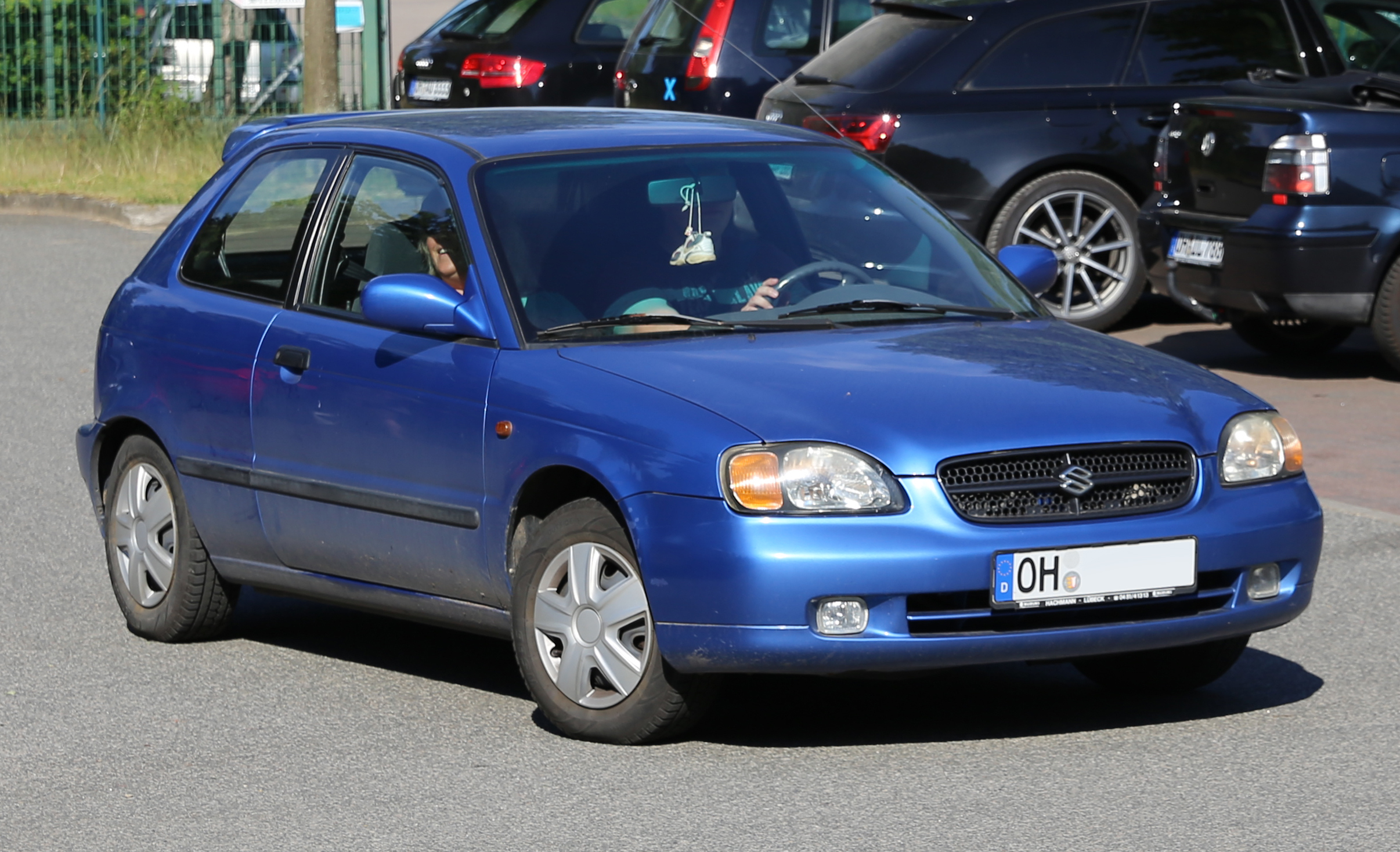 A facelifted Suzuki Baleno hatchback, front view